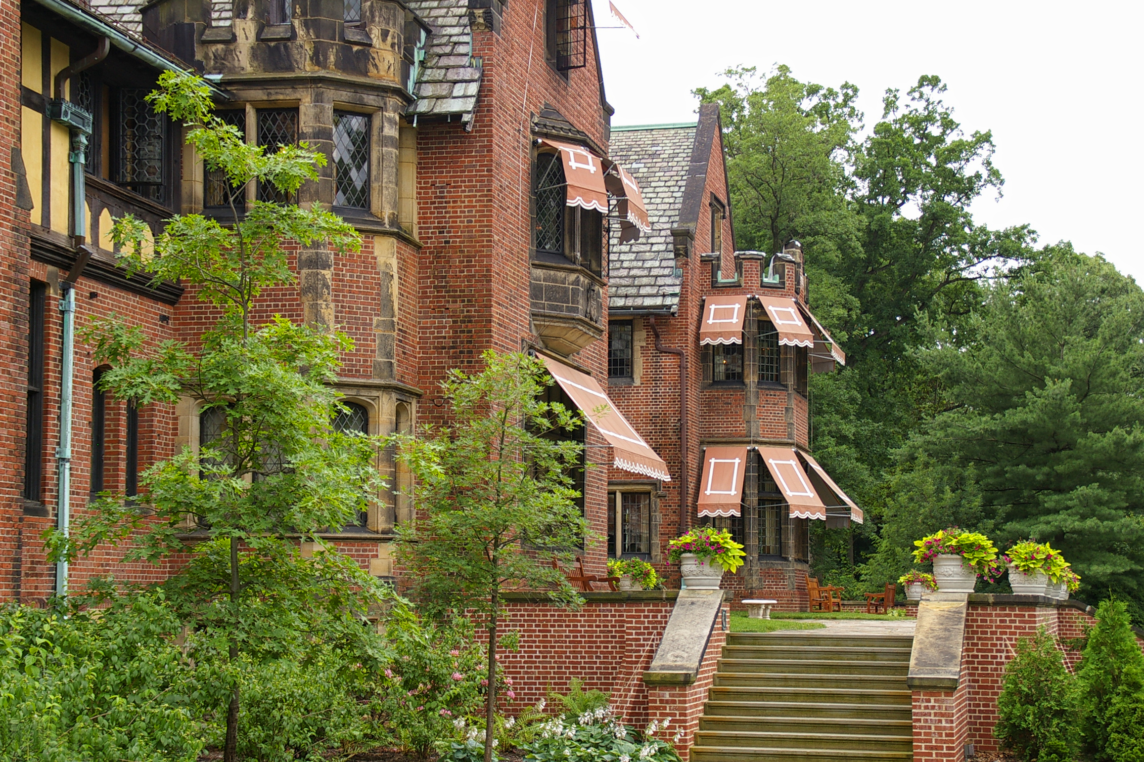 Stan Hywet Hall-Frank A. Seiberling House